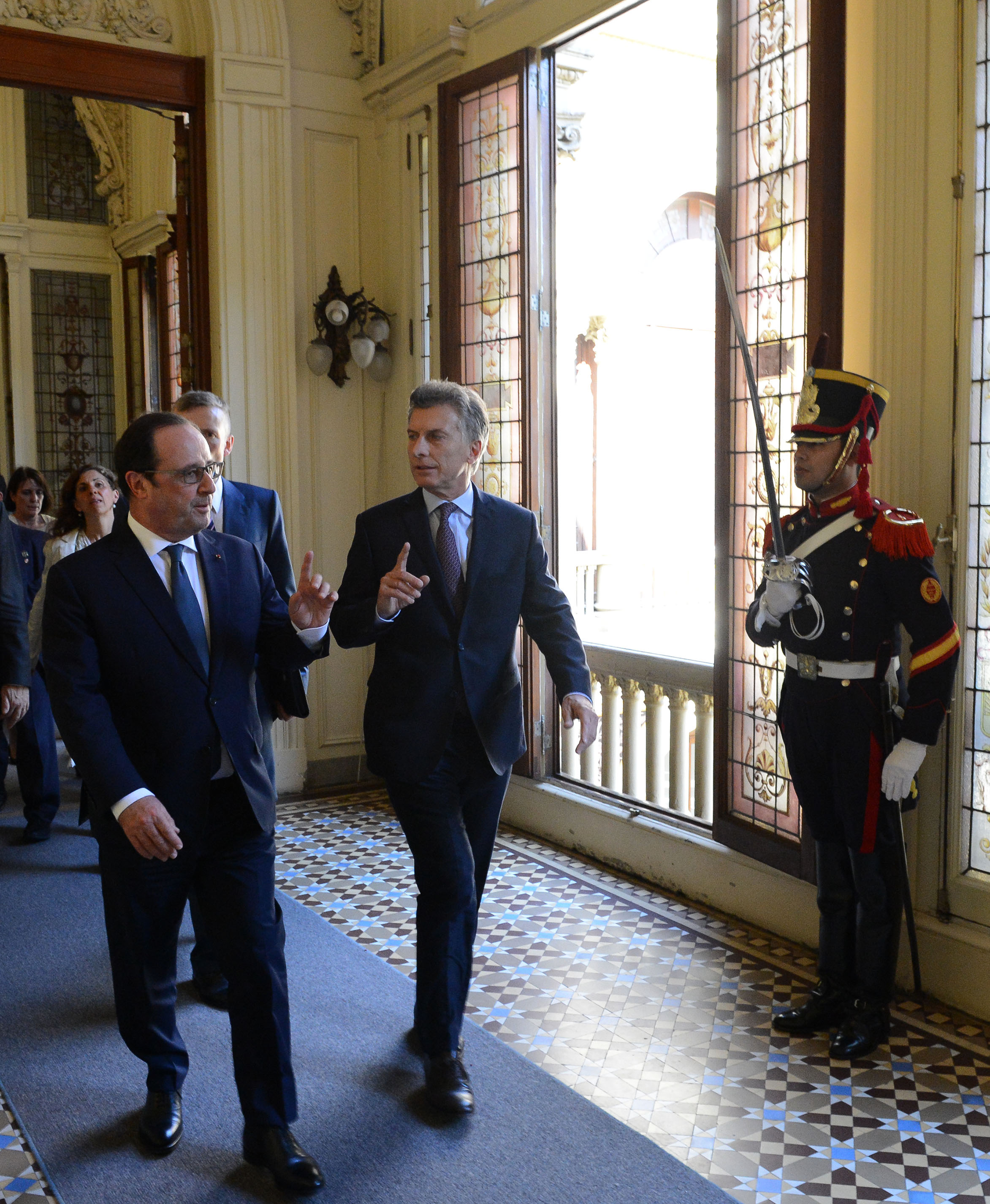 Argentina's president Mauricio Macri with François Hollande, his french counterpart